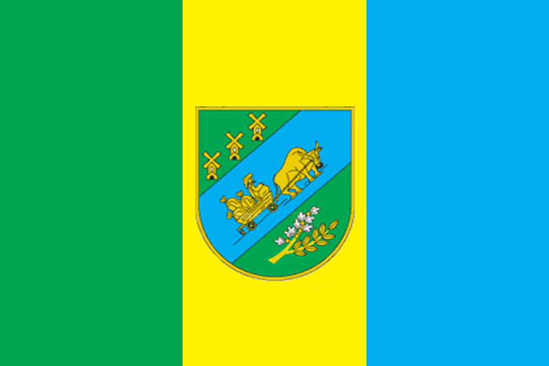 The Flag of Ivanivka Raion of Odessa Oblast, Ukraine